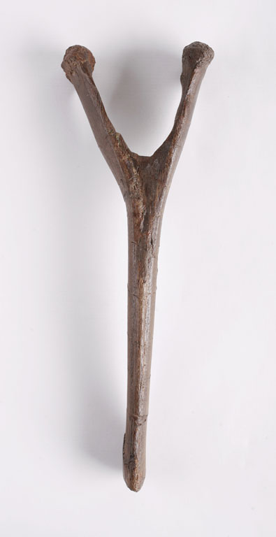 An isolated chevron bone (hemal arch; anterior view) from the tail of the duckbill dinosaur Edmontosaurus annectens from the Late Cretaceous (Maastrichtian, ~68 million years ago) of North America, in the permanent collection of The Children’s Museum of Indianapolis.